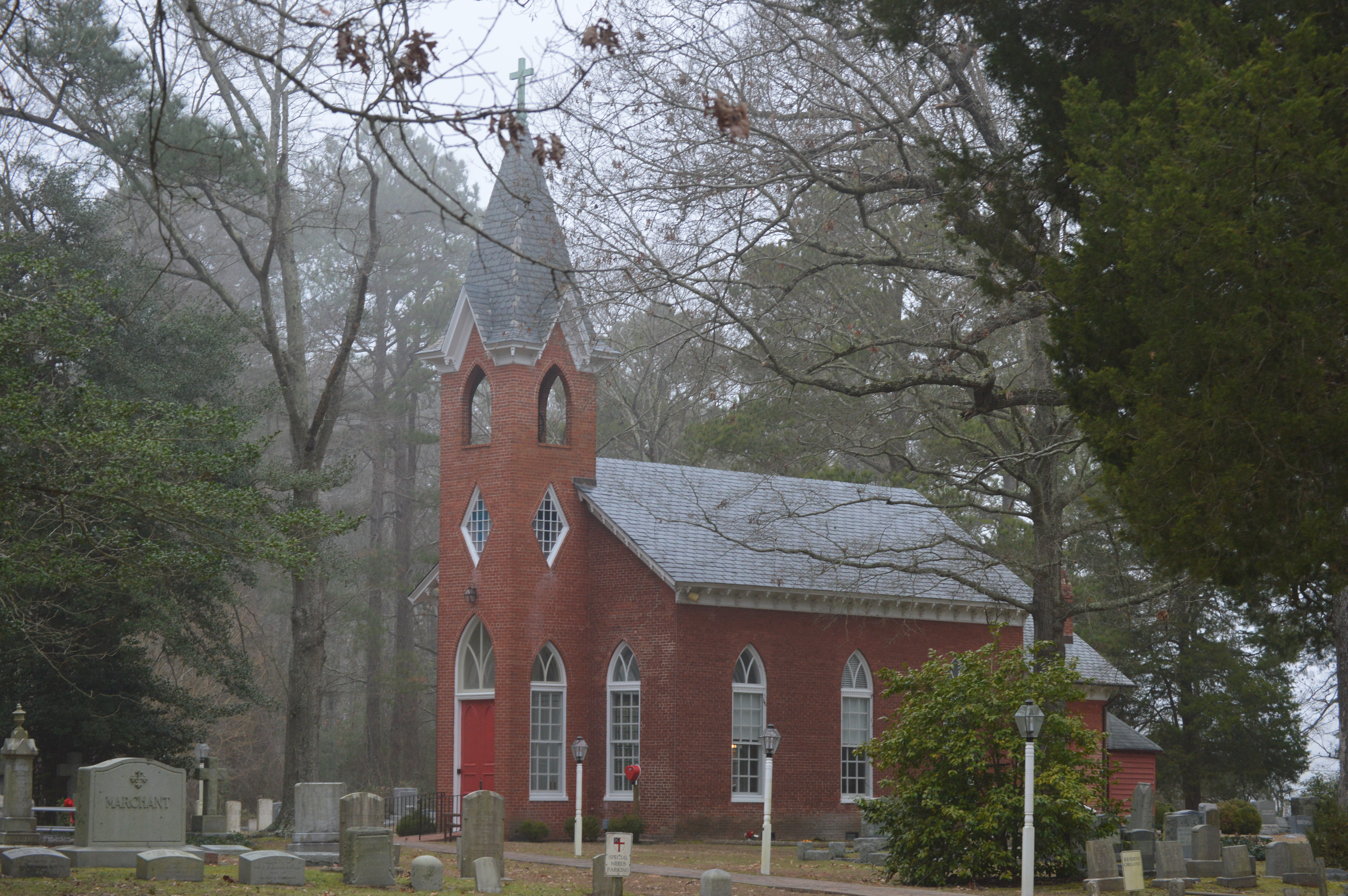 Front and eastern side of Christ Church Episcopal, located at 320 Williams Wharf Road south of Mathews in Mathews County, Virginia, United States. The parish dates from 1652, but this particular building was constructed in 1904 after its predecessor was destroyed by fire.